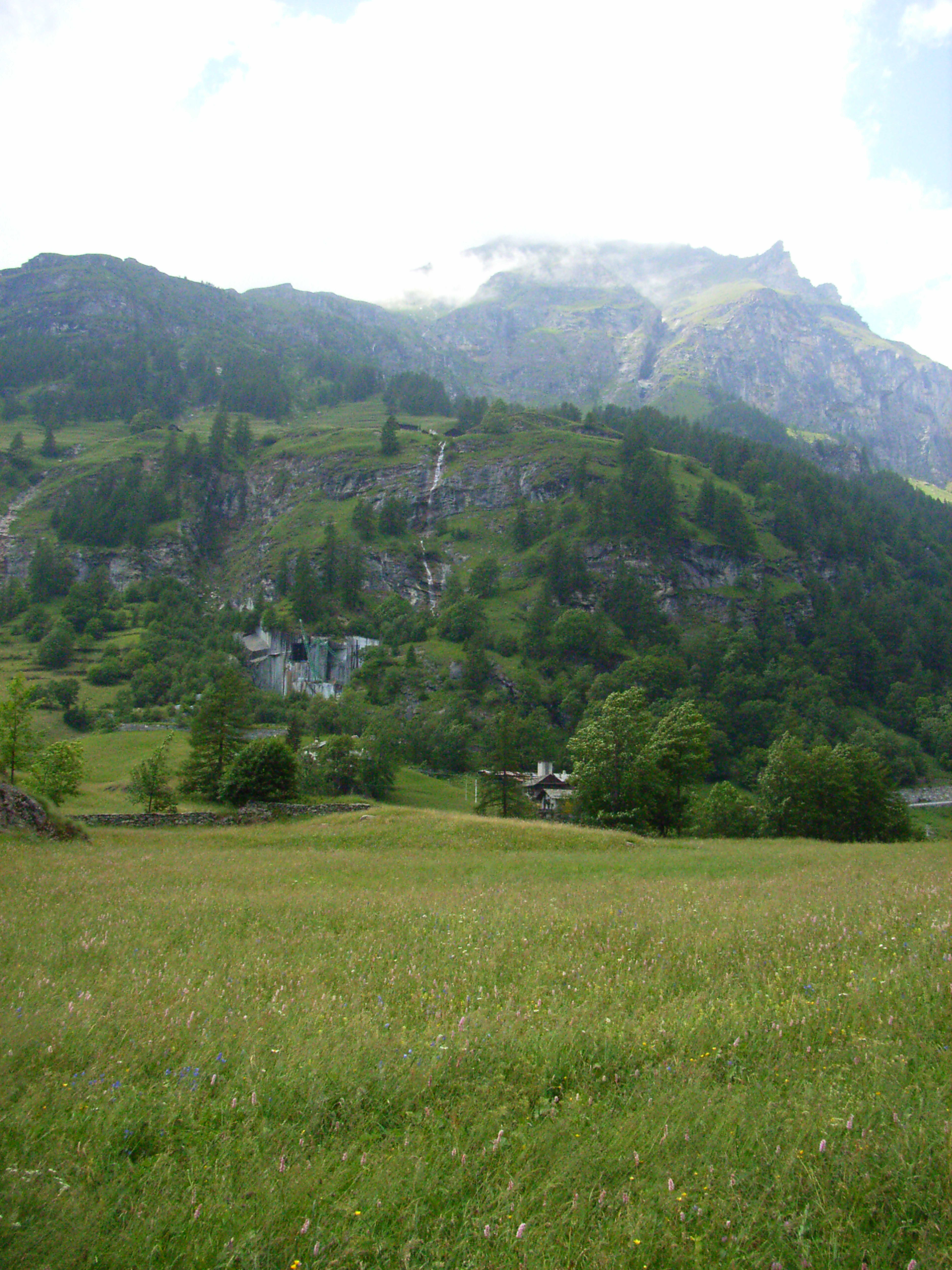 Gressoney Valley / Val di Gressoney, near Bielen (Aoste Region, Italy)